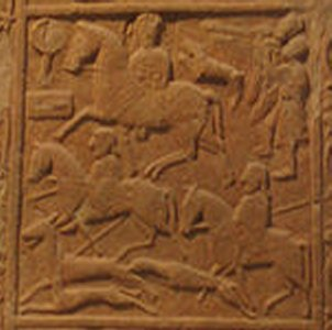 Hilton of Cadboll stone front Museum of Scotland